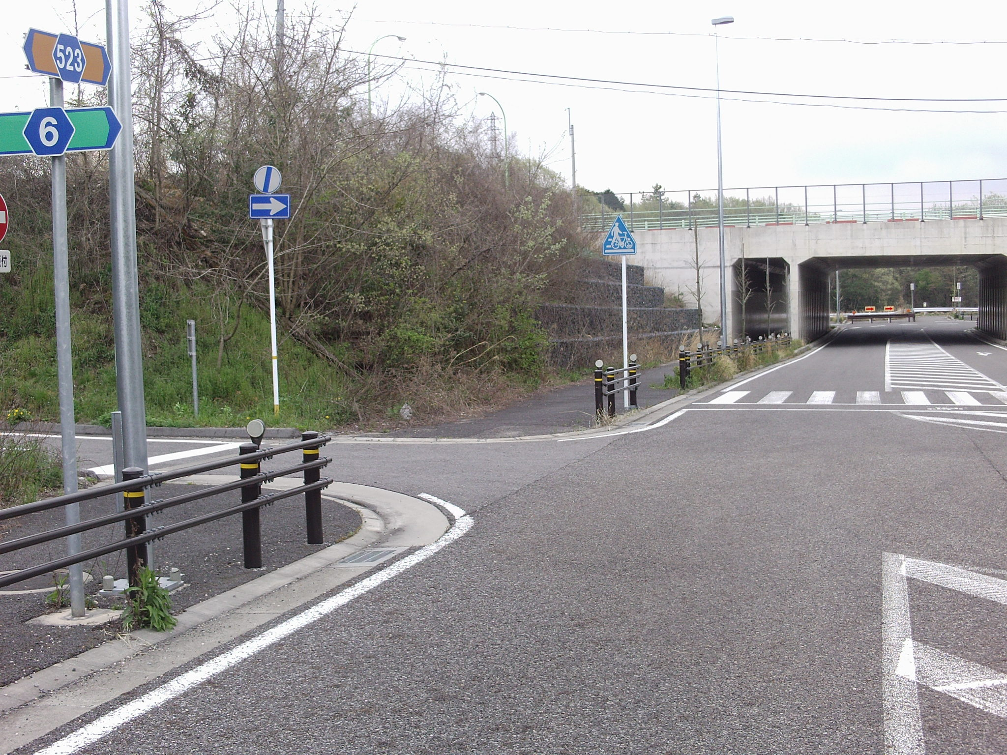 Aichi prefectural road No.523 in Yakusacho, Toyota, Aichi.